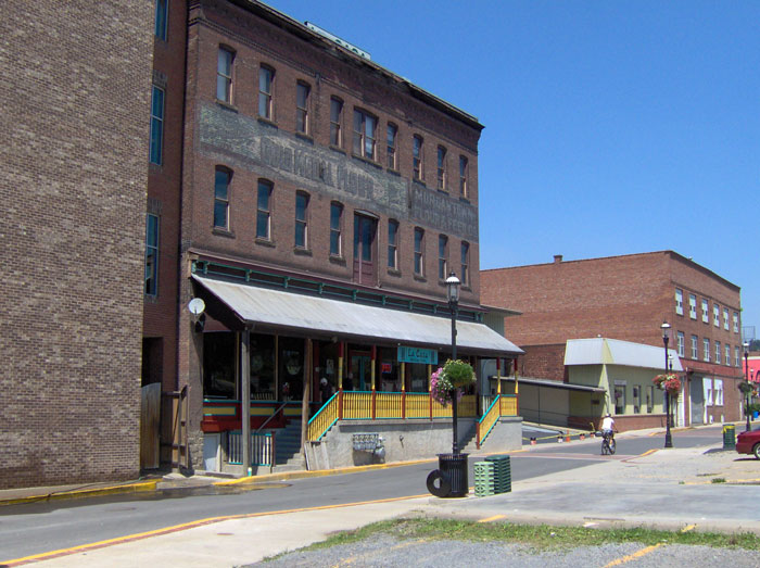 Morgantown, West Virginia, 2006. Wharf District with historic buildings. Photographed by the uploader.